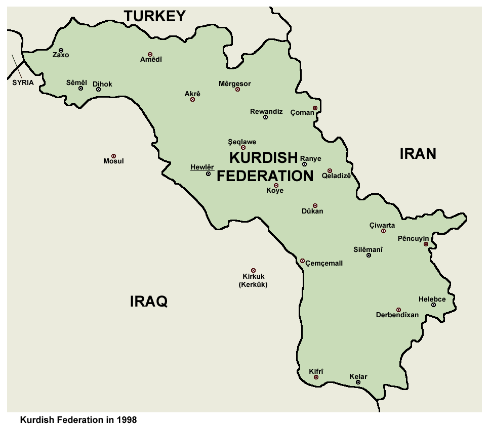 Map of Kurdish Federation (Southern Kurdistan) in 1998.